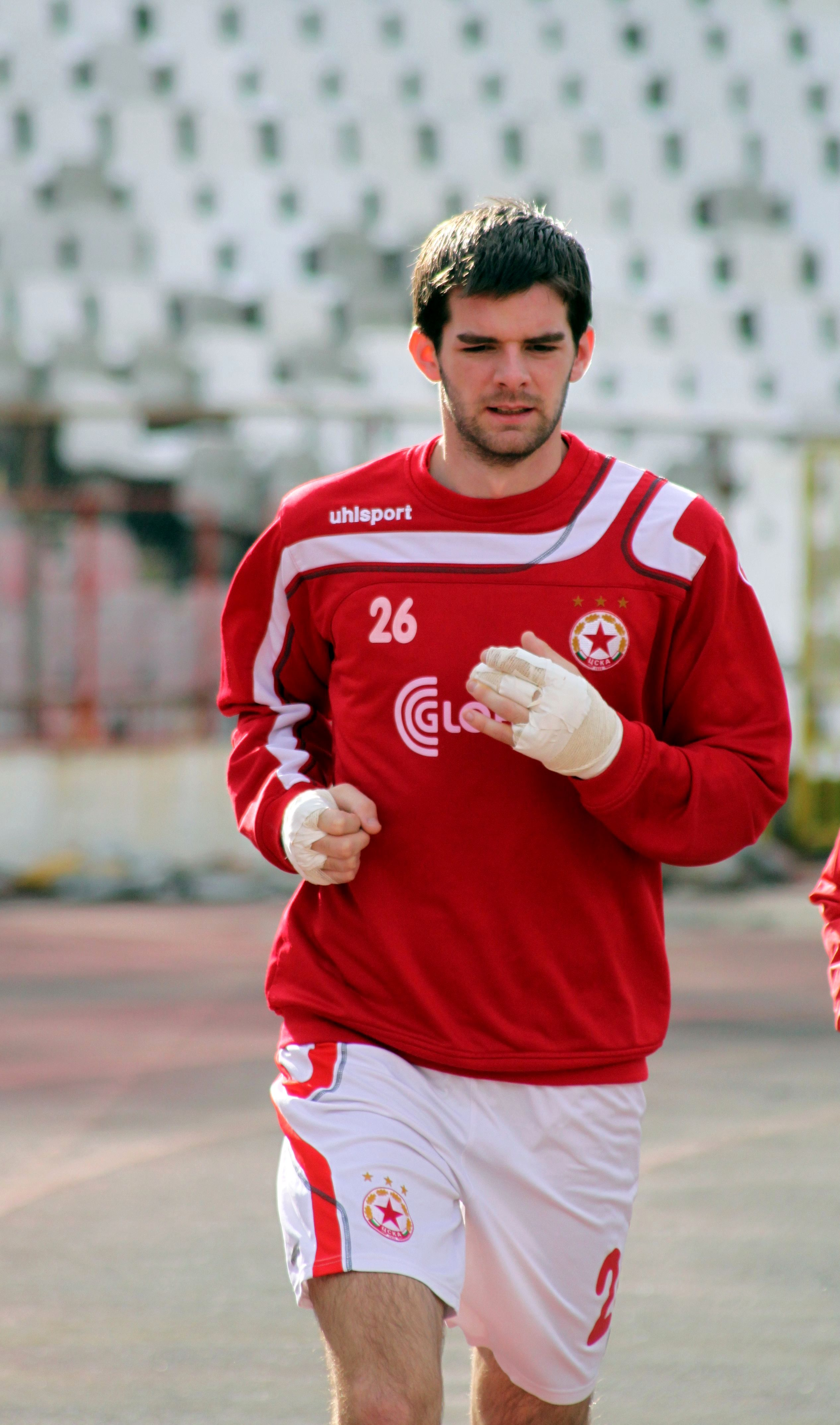 Cillian Sheridan (born 23 February 1989 in Bailieboro, Cavan) is an Irish professional footballer who plays as a forward for Bulgarian club CSKA Sofia and the Irish national team. Sheridan has previously played for Scottish Premier League clubs Celtic, Motherwell and St Johnstone, and English club Plymouth Argyle.